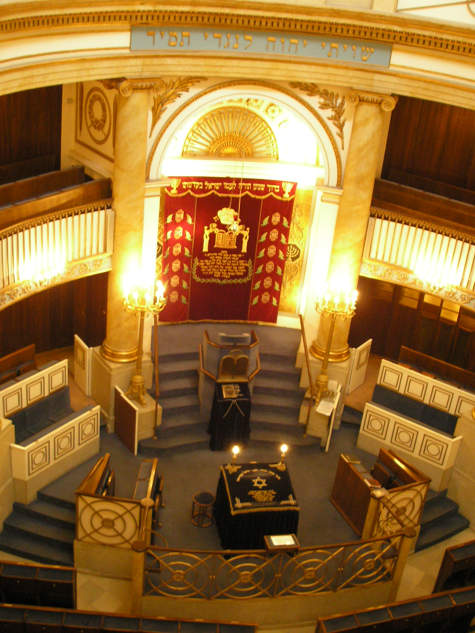 Image of the Stadttempel in Vienna.